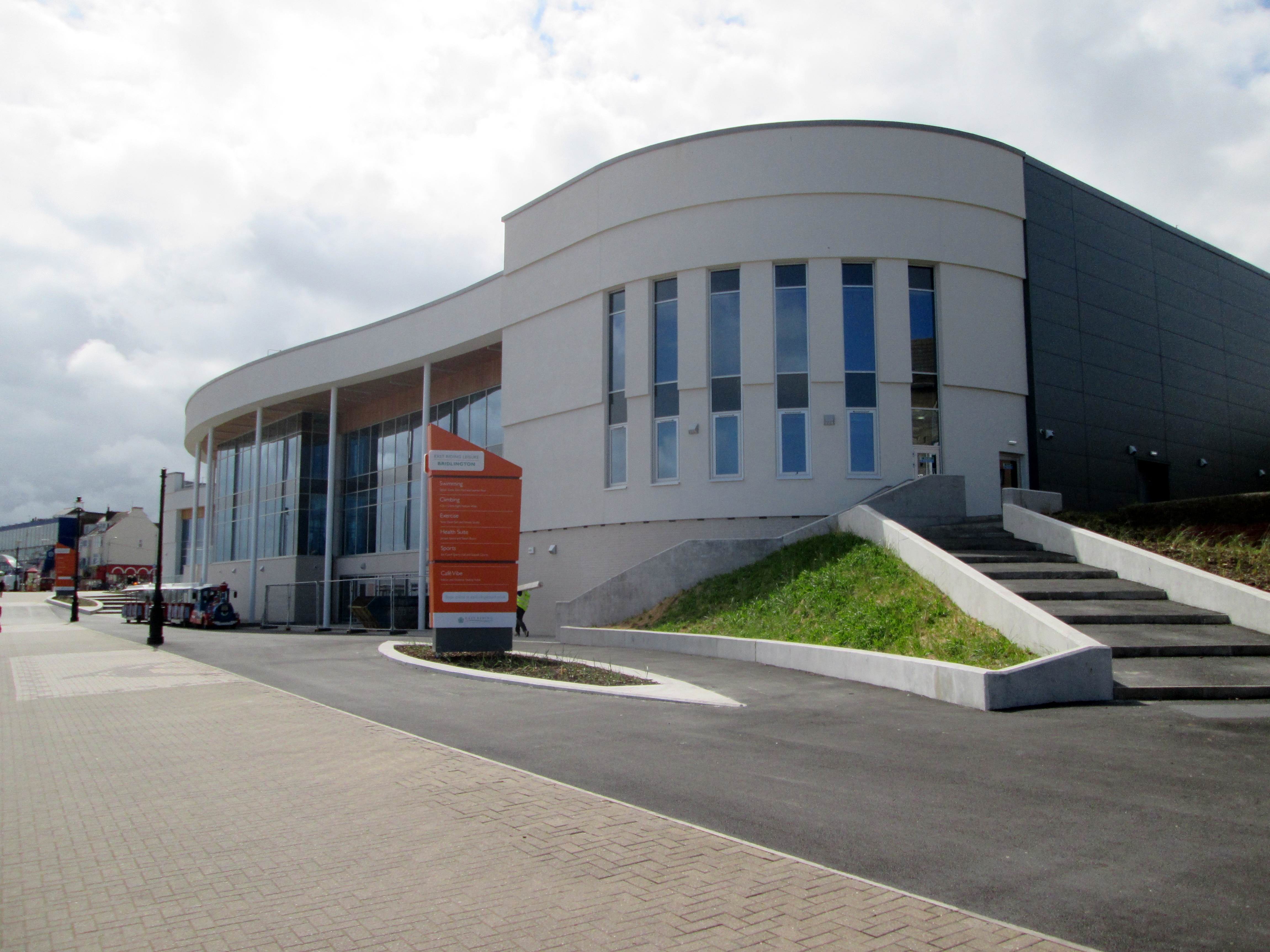 Redevelopment of Leisure Centre Bridlington, East Riding of Yorkshire, England.The old leisure centre closed over two years ago, demolished and redeveloped it opened May 2016 at a cost of 25 million pounds.